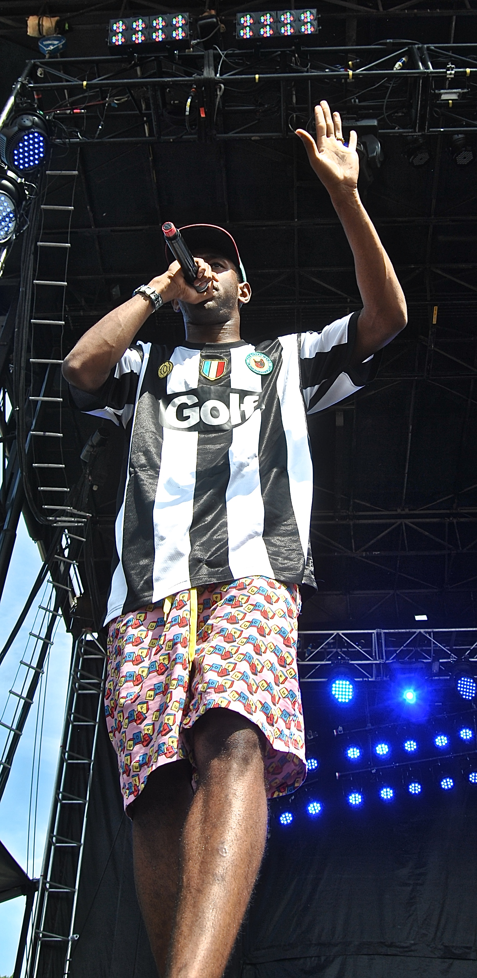 Tyler, the Creator at the 2016 Governors Ball (2)